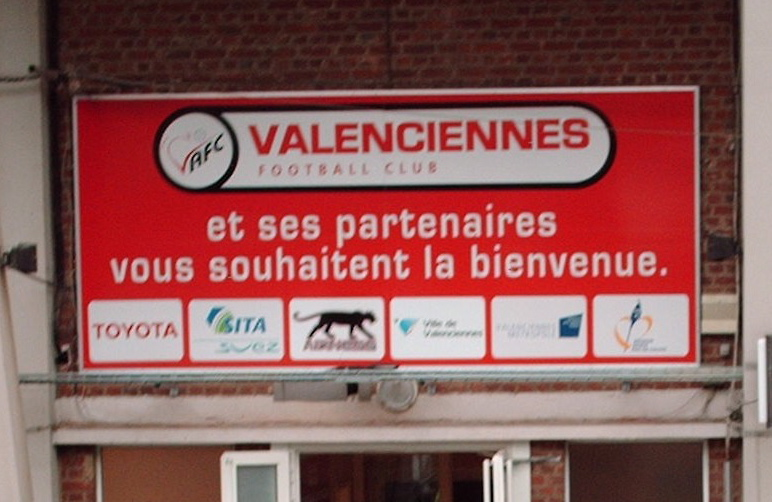 Valenciennes FC 2006-2007 partners